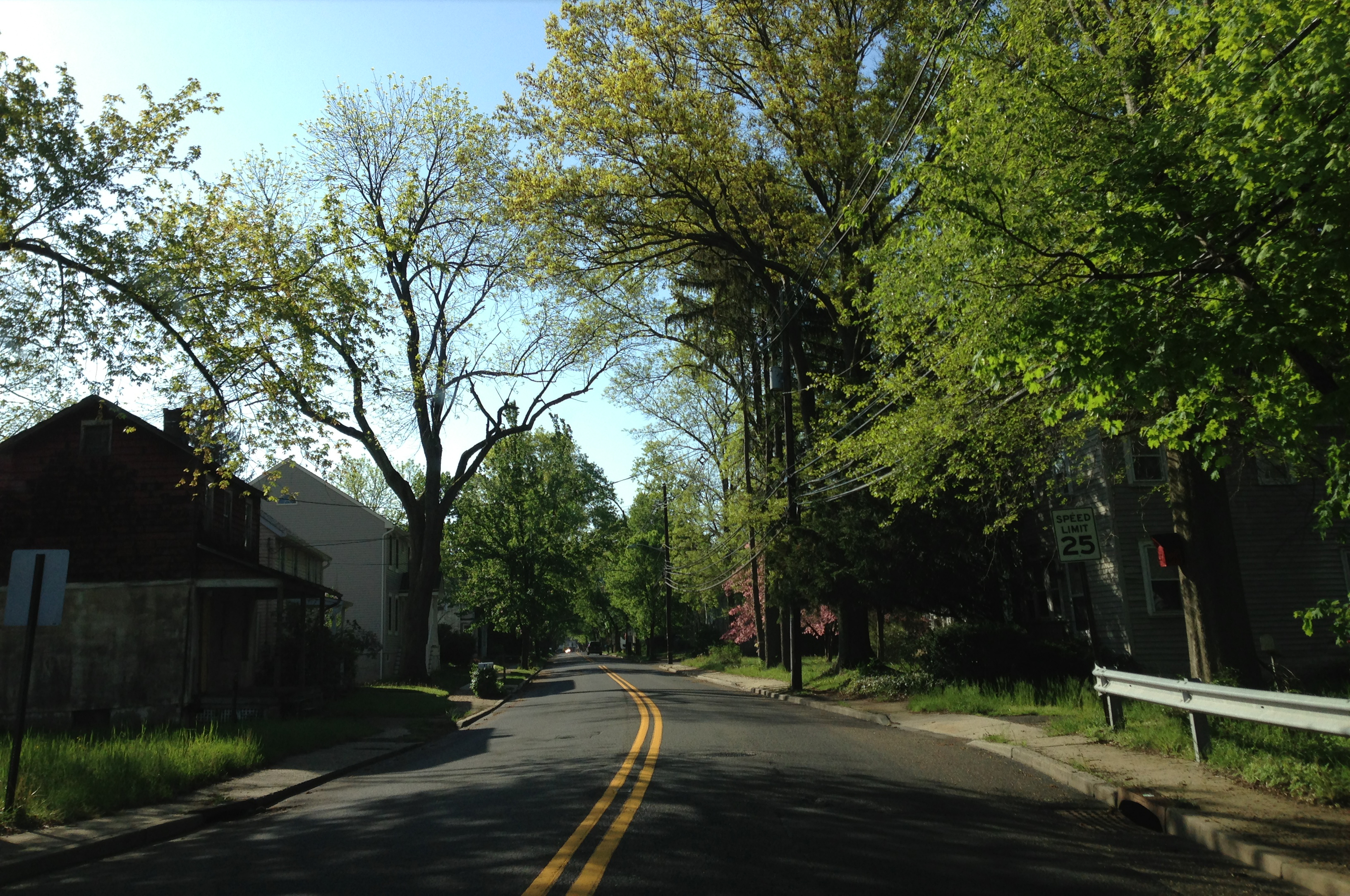 View east along Church Street (Monmouth County Route 526) near Indian Run in Allentown, New Jersey